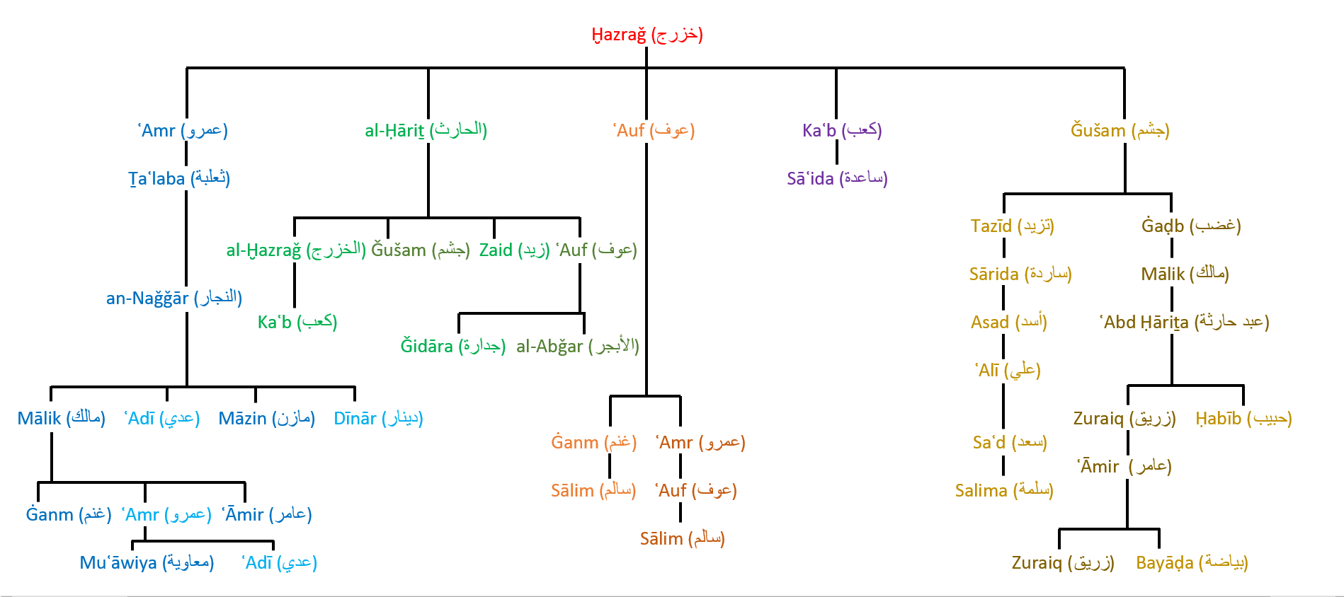 Lineage of the Khazraj, a Clan of Medina at the time of Muhammad